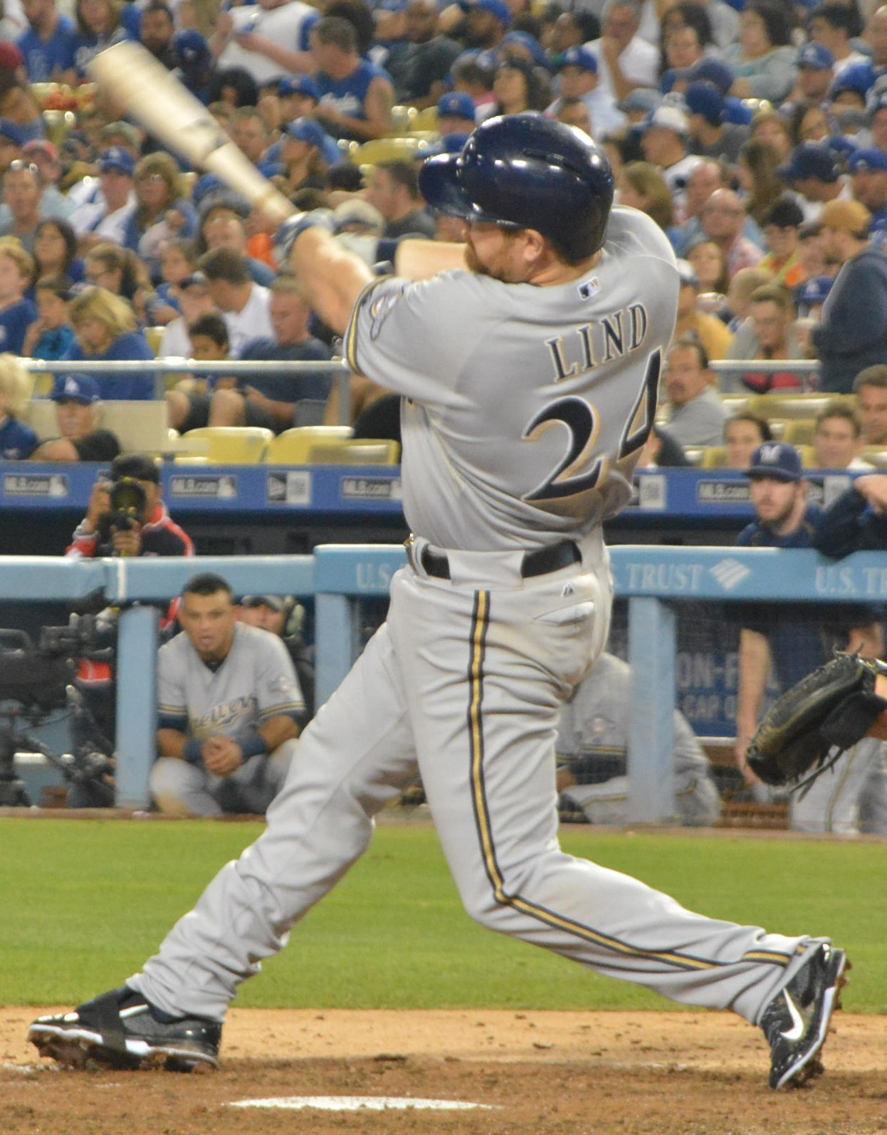 Adam Lind 2015